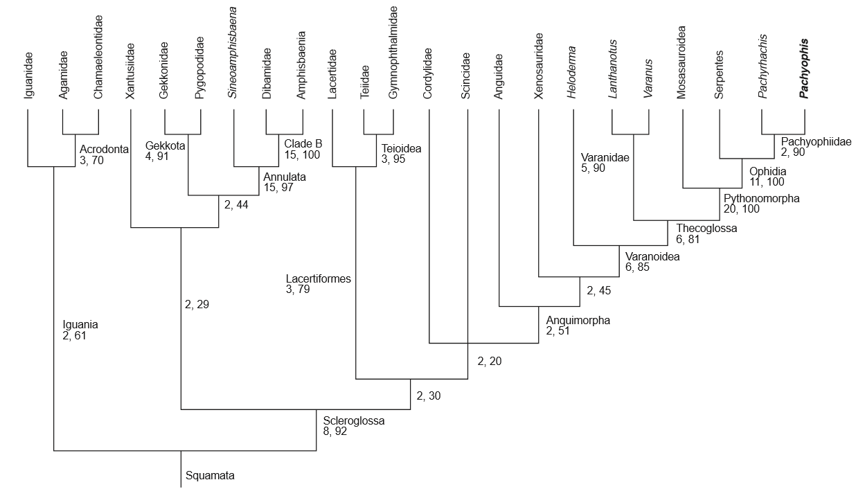 Cladogram of Pachyophis Phylogeny